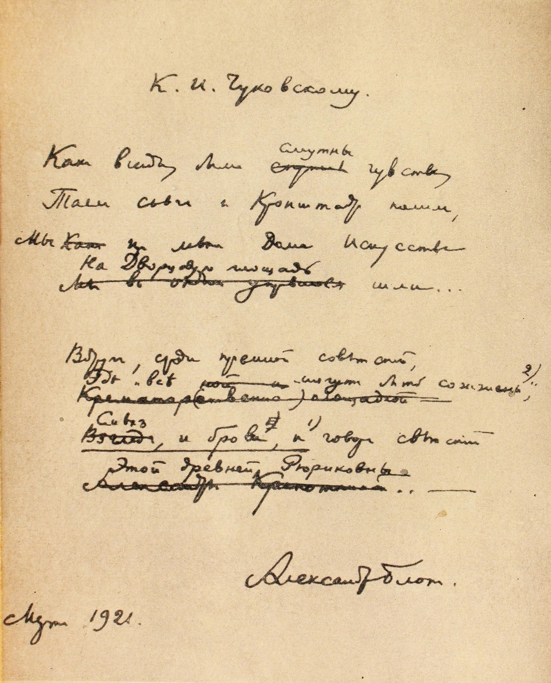 Russian poet A. Blok signature.